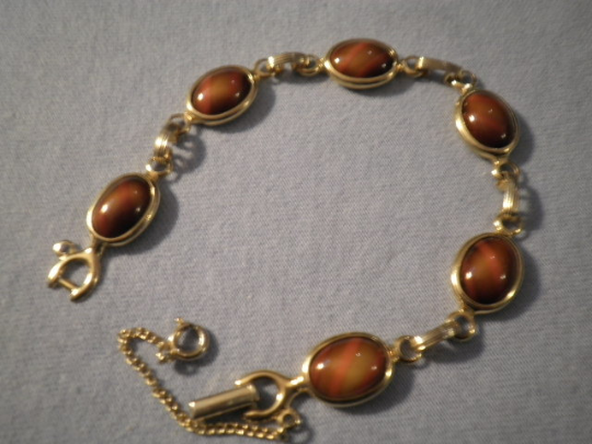 Sarah Coventry 1970 "Wood Nymph" bracelet. First published here